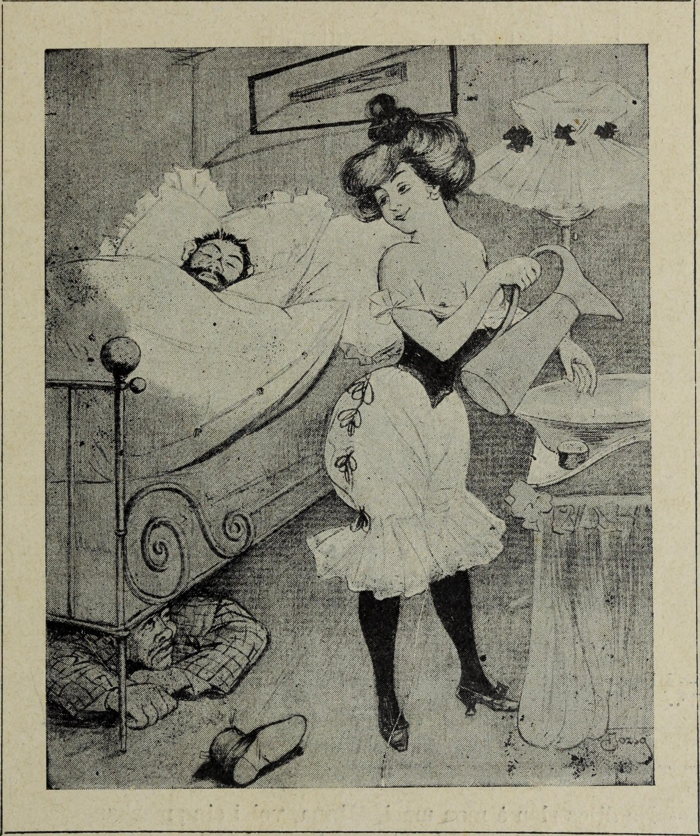 Title: Images galantes et esprit de l'etranger: Berlin, Munich, Vienne, Turin, Londres Year: 1905 (1900s) Authors: Grand-Carteret, John, 1850-1927 Subjects: Wit and humor Sex Publisher: Paris, Librairie Mondiale Text Appearing Before Image: — Celles qui... dun revers de médaille savent attirer les regards. Croquis de (.aronte (La Lima, de Turin,. IMAGES GALANTES DE L ÉTRANGER 209 Text Appearing After Image: DÉLOGÉ — Dis donc, tâche quil ne ronfle pas daussi formidable façon ; il ny a pasmoyen de dormir. Caricature de Cari Jozsa (Die Auster, de Munich, 1903). (*) Le miché étant dans le lit, Alphonse a dû se loger comme il a pu — dessous. Cest une image parlante des mauvaises mœurs... de Munich qui, sous cerapport, ressemblent à celles de Vienne, Berlin, Londres, Paris, ou autresgrandes cités cosmopolites 14 210 IMAGES GALATSTES DE LÉTRANGER